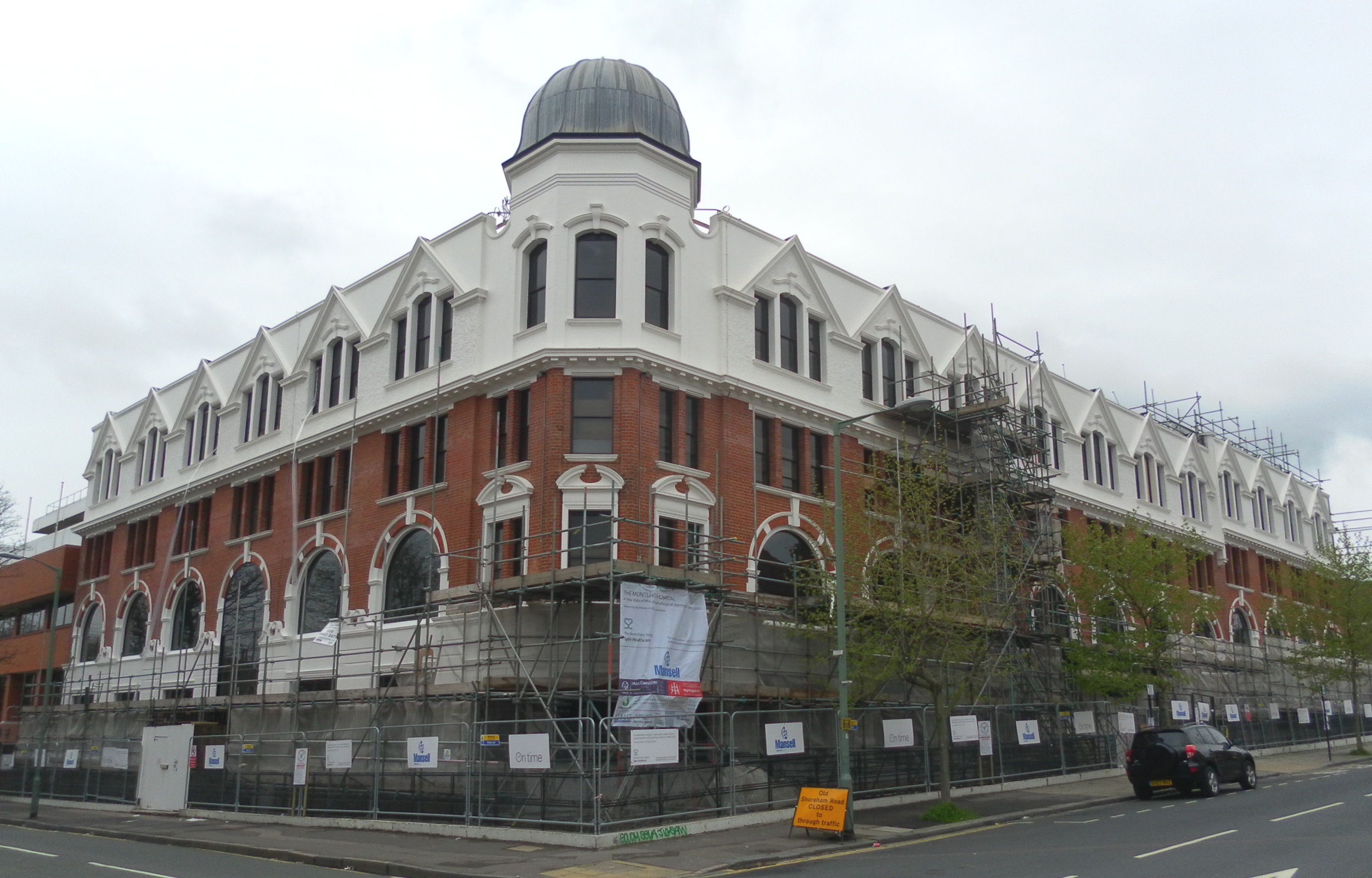 Montefiore Hospital, Davigdor Road/Montefiore Road, Hove, City of Brighton and Hove, England. The building dates from 1904 and was originally a furniture depository. Later it was occupied by Legal & General Assurance Services. They moved to another building in Hove in 2005, and this building was empty until it was acquired by Spire Healthcare in 2011. They renovated it (the picture dates from the time of that work), and it reopened in November 2012 as Montefiore Hospital, a private hospital.